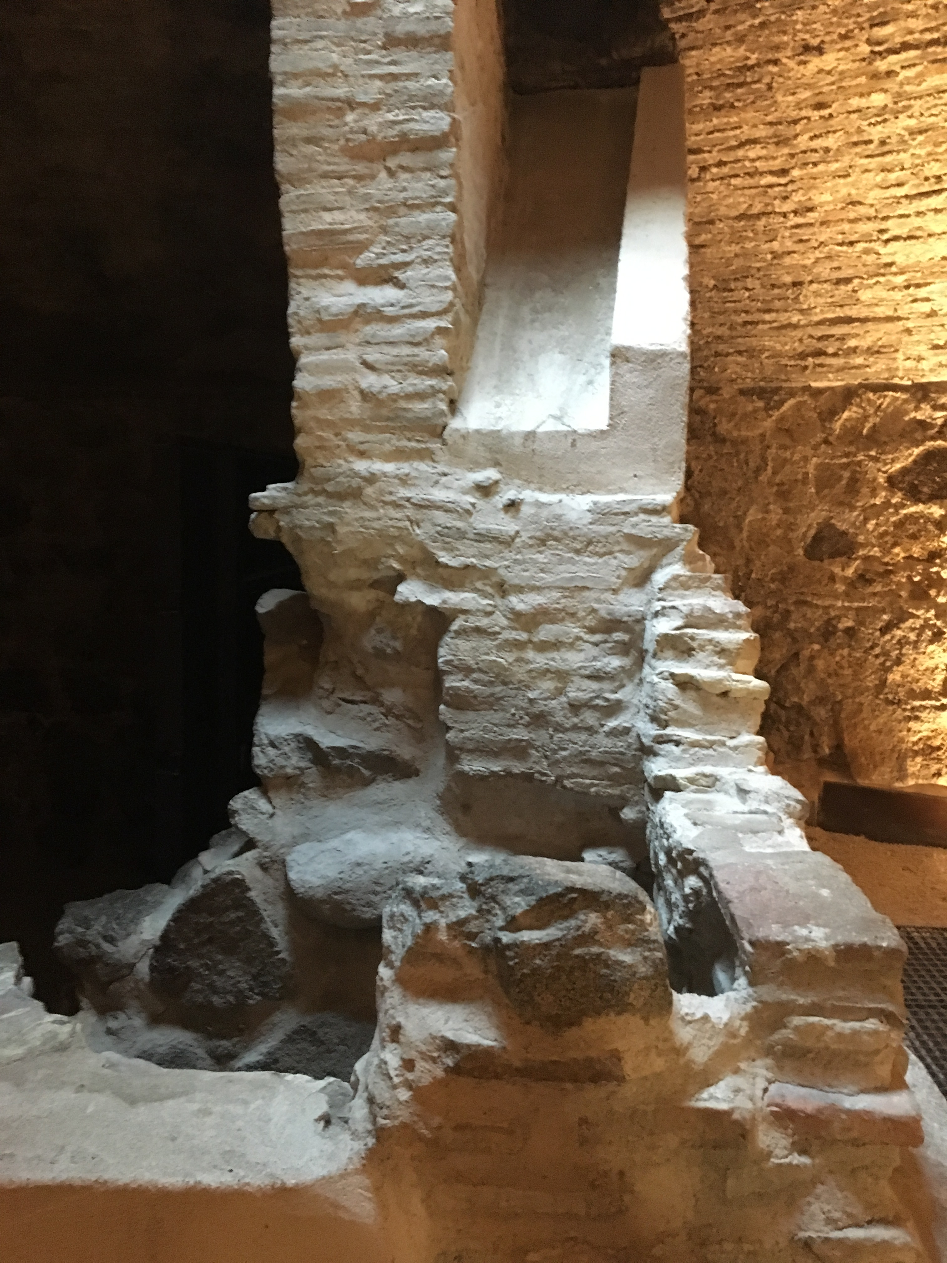 The aljibe of El Salvador. Seen from below.